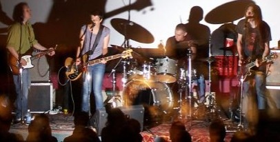 Eric's Trip playing live in 2006.